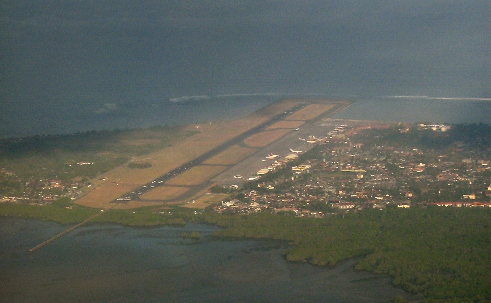 Birds View of Denpasar Airport, Bali, Indonesia